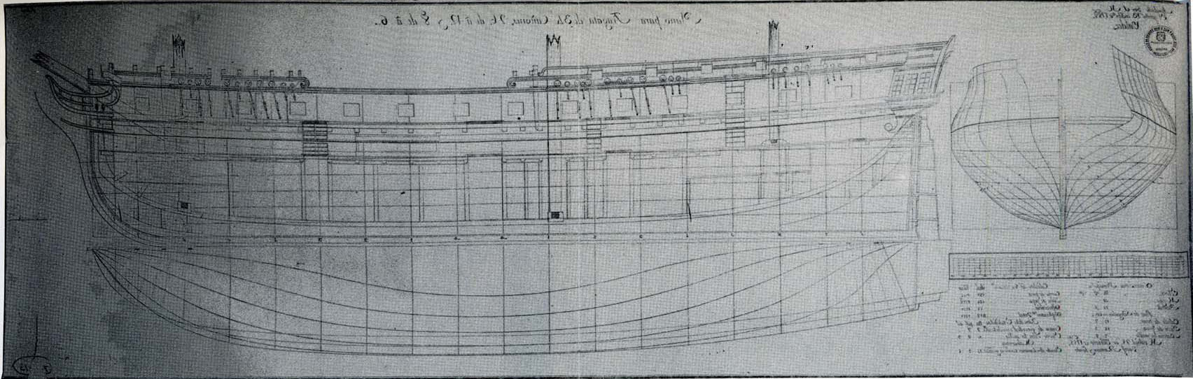 Plans of frigate of 34 guns by José Romero y Fernández de Landa